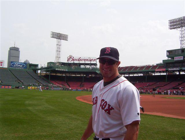 Gabe Kapler at Fenway Park